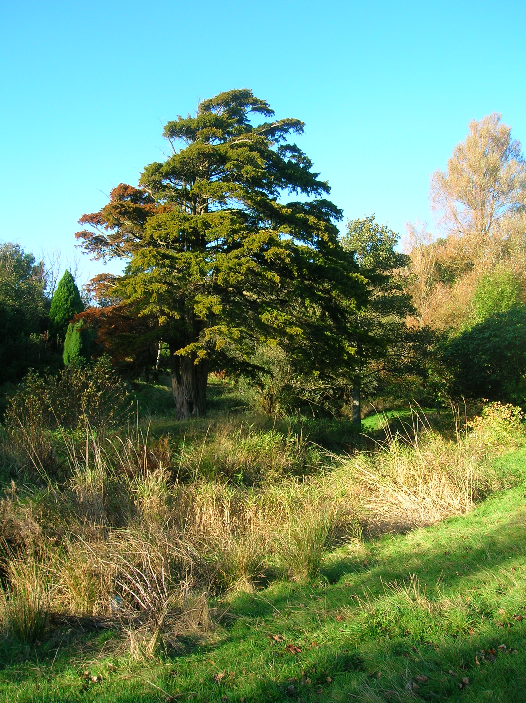 The old rockery garden at Eglinton Country Park, North Ayrshire, Scotland. A Yew tree in the foreground.